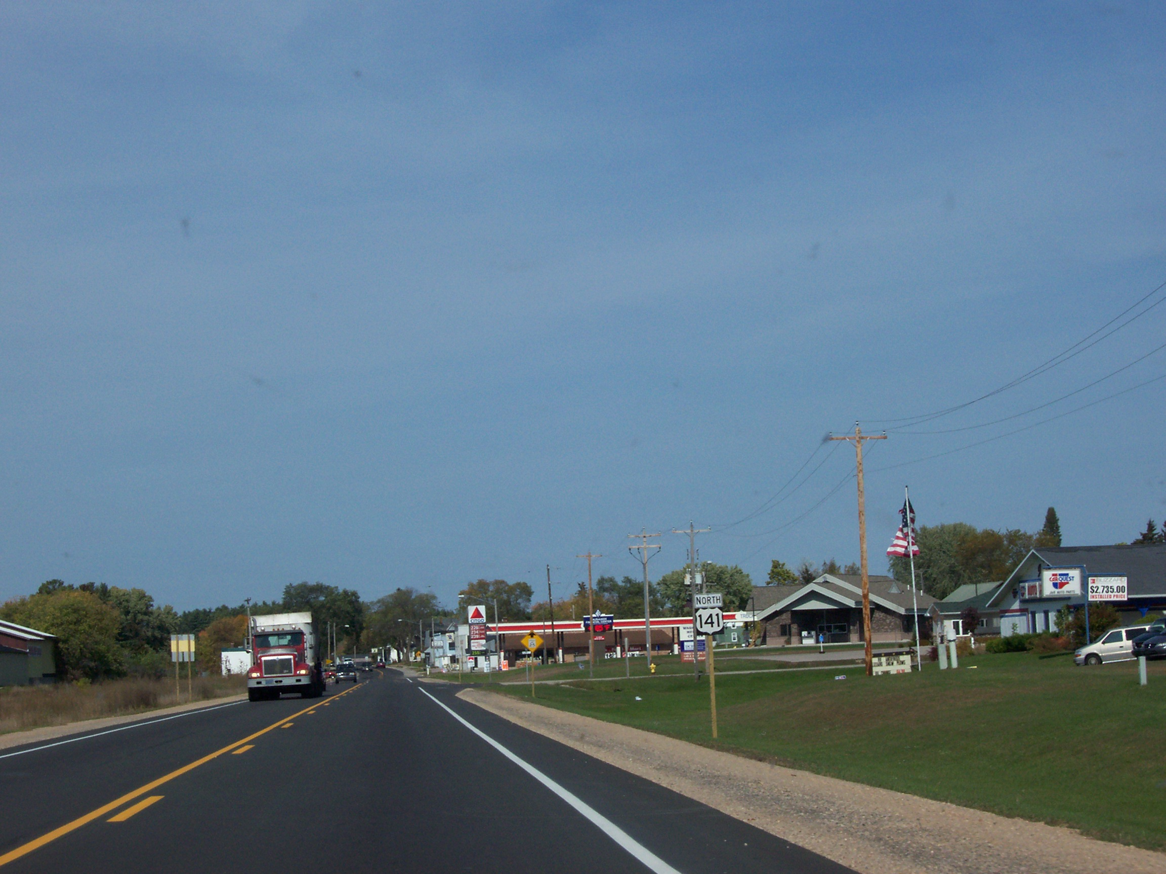 Travelly north on U.S. Route 141 at the south edge of Wausaukee, Wisconsin, United States. This image was taken October 7, 2006 by User:Royalbroil (image date is wrong) Category:Images of Wisconsin highways